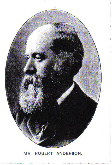 This is a photocopy from a 1891 publication called 'Publishers' Circular'. It is out of copyright and is reproduced by kind permission of the staff of the Edinburgh Room at Edinburgh Central Library.